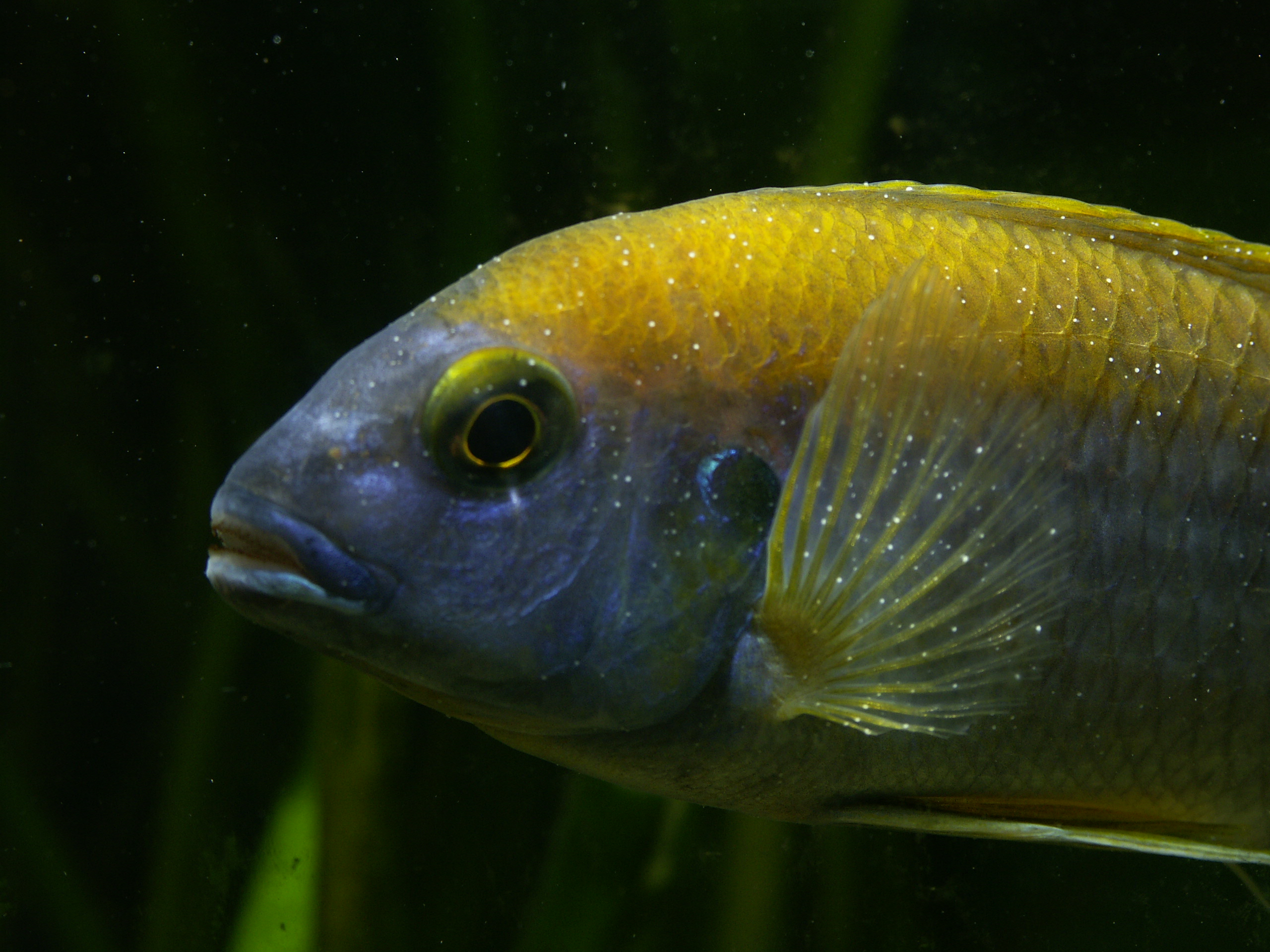 Ichthyophthiriasis: Fish Disease Made by Thomas Kaczmarczyk (